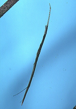 male Ariamnes cylindrogaster from Okinawa.